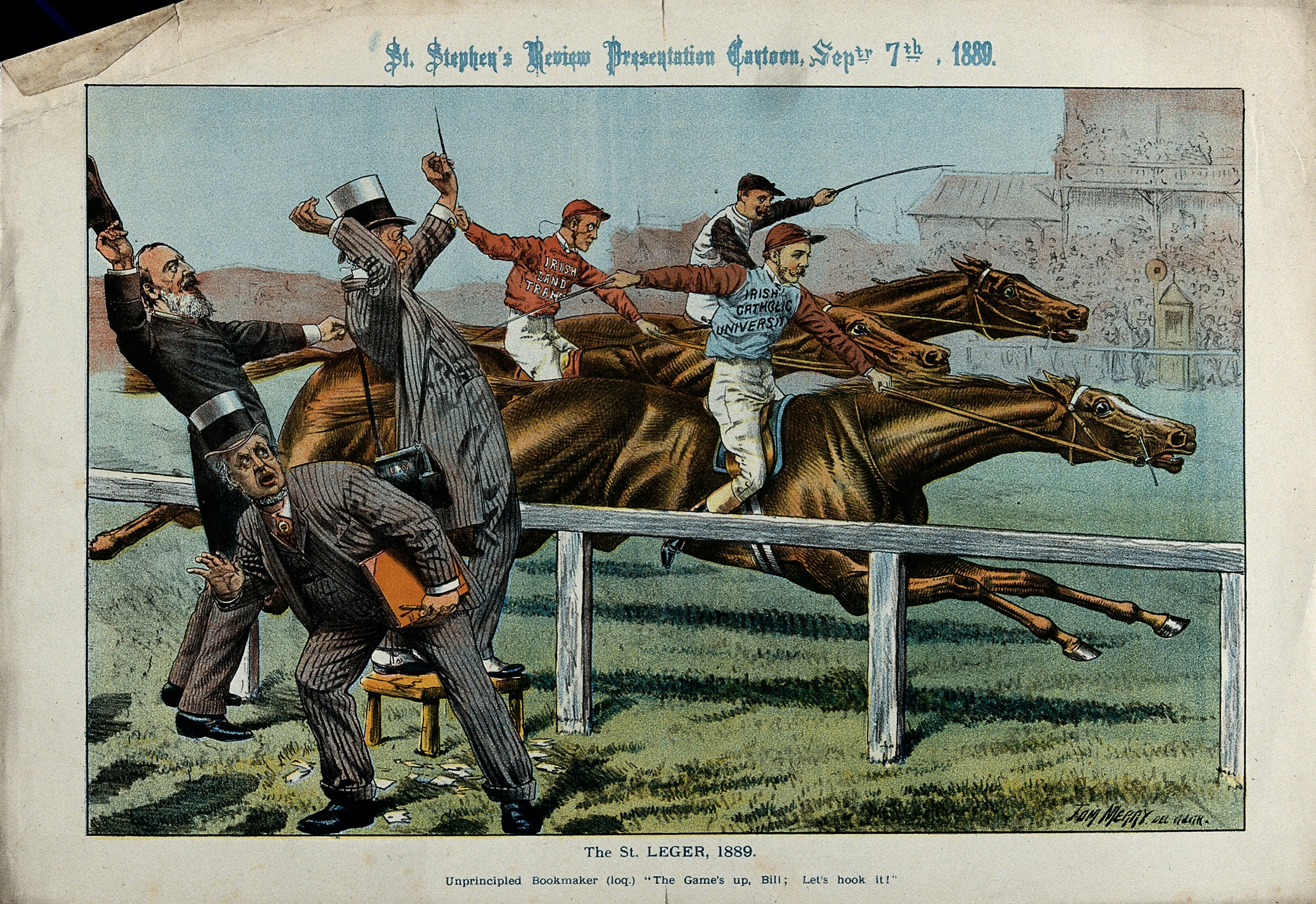 A political cartoon showing three bookmakers watching a horserace Iconographic Collections Keywords: Horse; Satire; Race; Gambling; Cartoon; Tom Merry